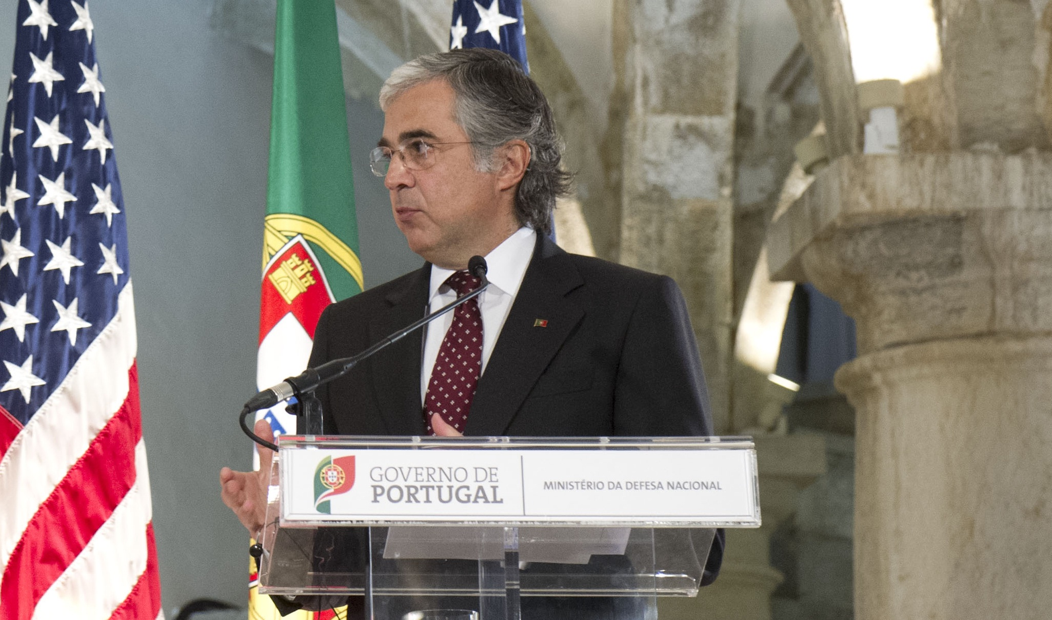 Secretary of Defense Leon E. Panetta holds a joint press conference with Portuguese Minister of Defense, Jose Pedro Aguiar-Branco, in Lisbon, Portugal